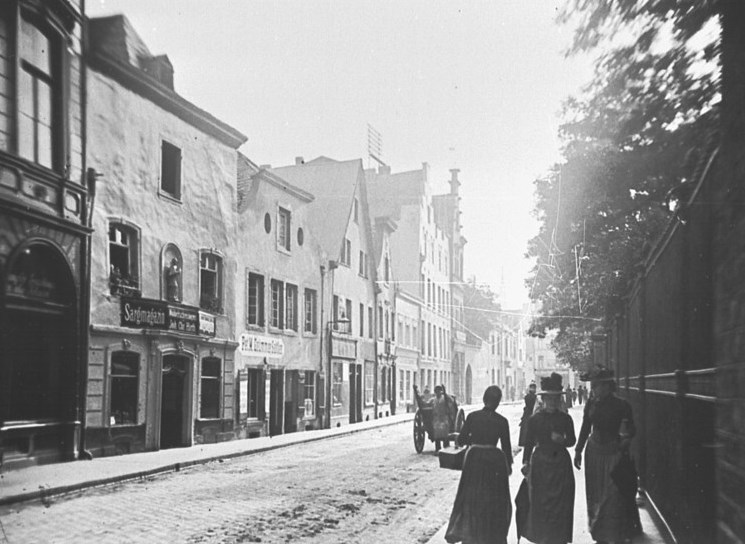 Sternengasse (1890)